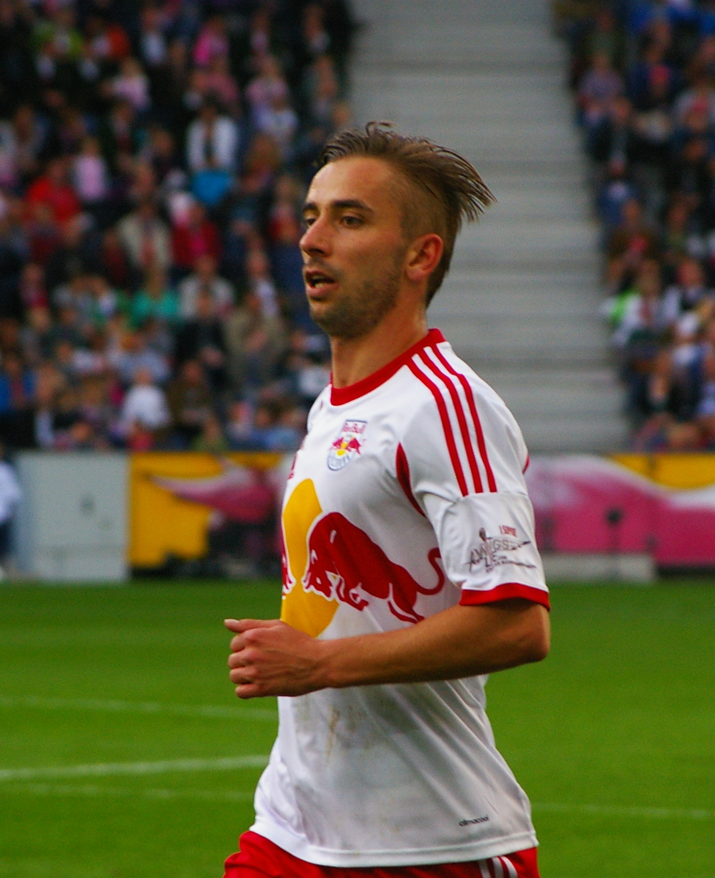 Austrian Bundesliga league match